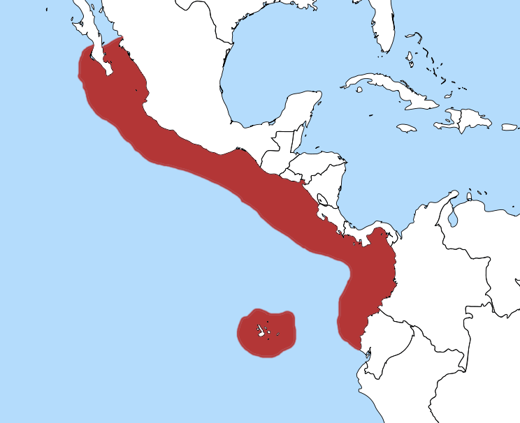 The Range of the Bullseye Electric Ray